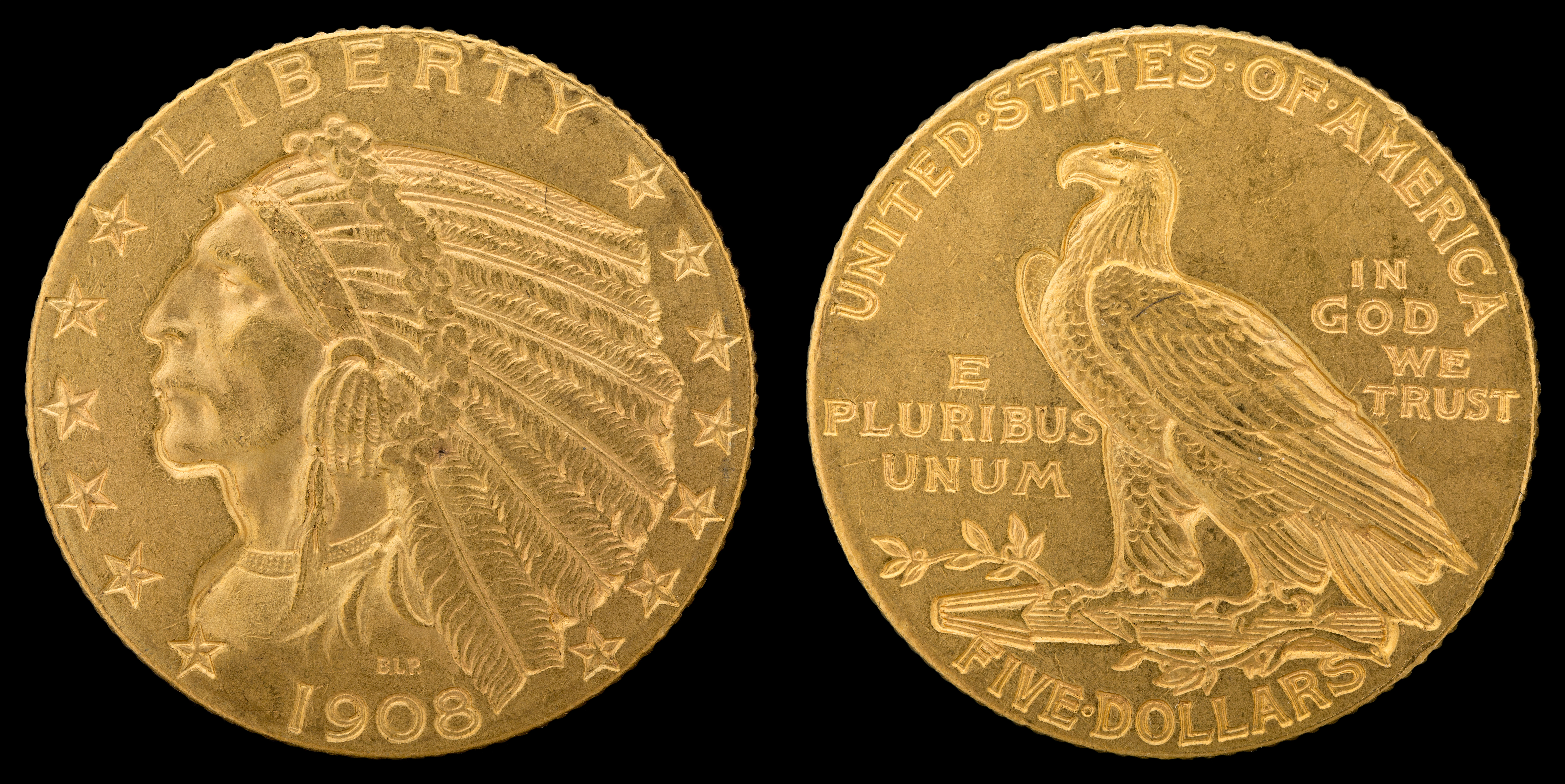 1908 G$5 Indian HeadGold (fineness 0.9000), 21.6mm, 8.359g, designed by Bella PrattJN2015-6746-47